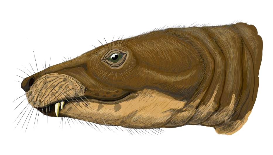 Theriognathus- reconstruction autor - Bogdanov